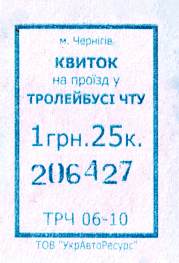 Single tickets for travel in the Chernigov trolley